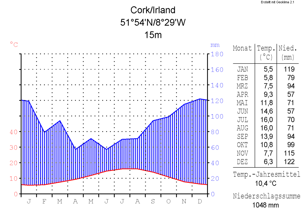 climate chart in the format by Walter and Lieth, metric, °Celsisus and millimeters, made with Geoklima 2.1